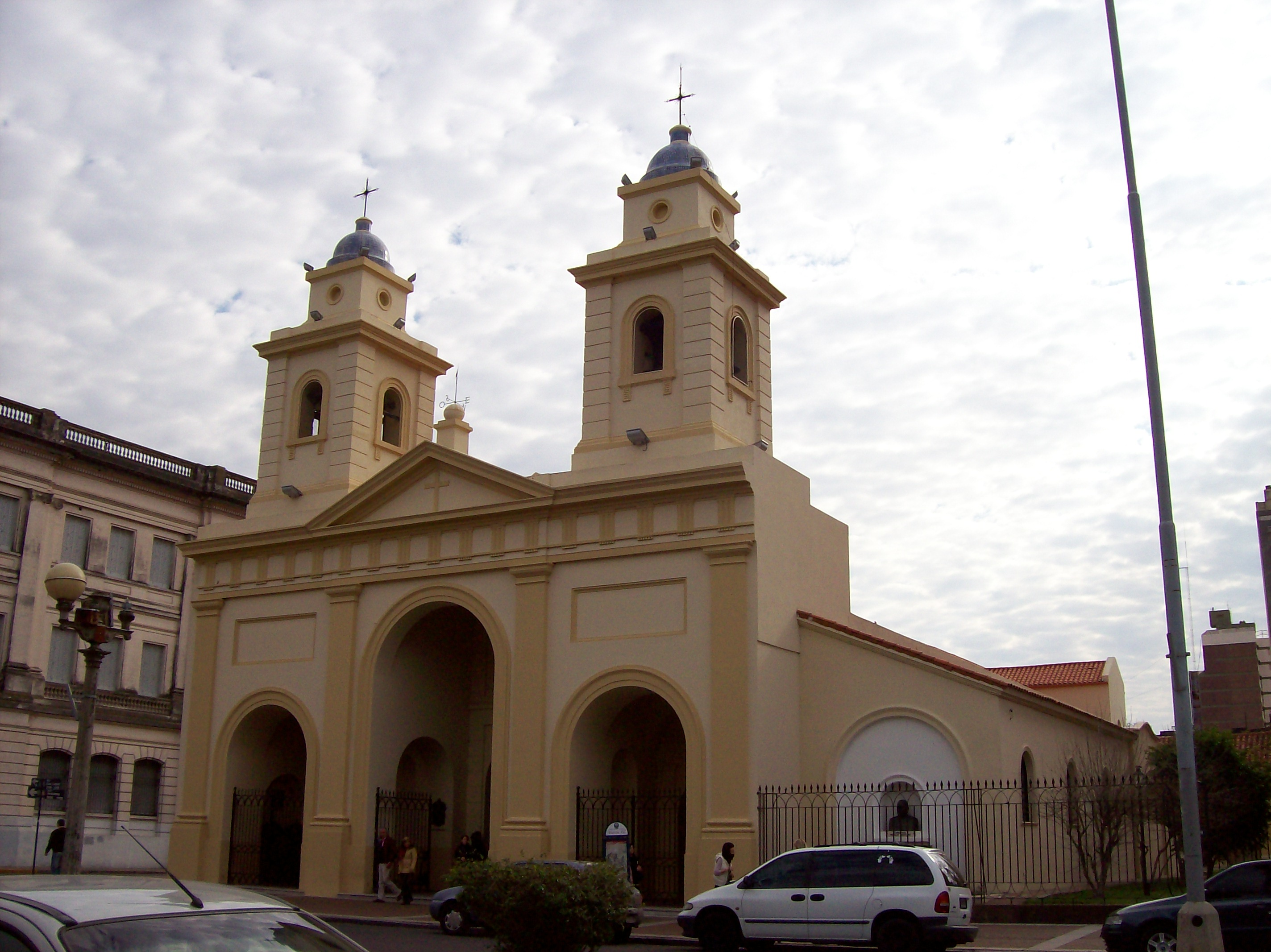 Vista exterior de la Catedral Metropolitana de Santa Fe de la Vera Cruz